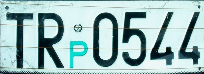 This image represents an Italian test plate for cars (TR = province of Terni) in use from 1985 to 1994